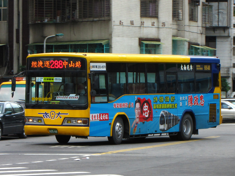 HINO ERK2JML